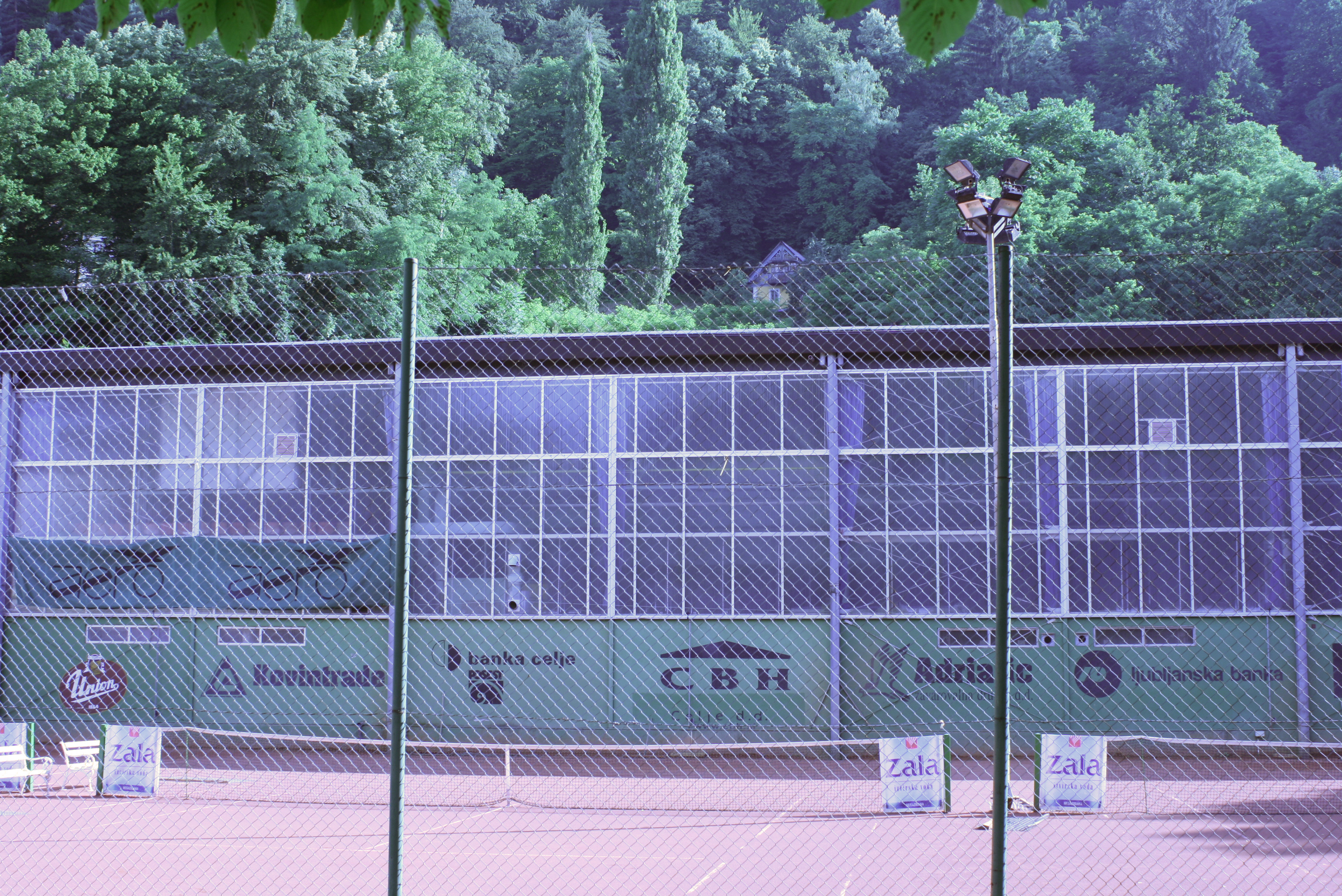 Ice Hall.